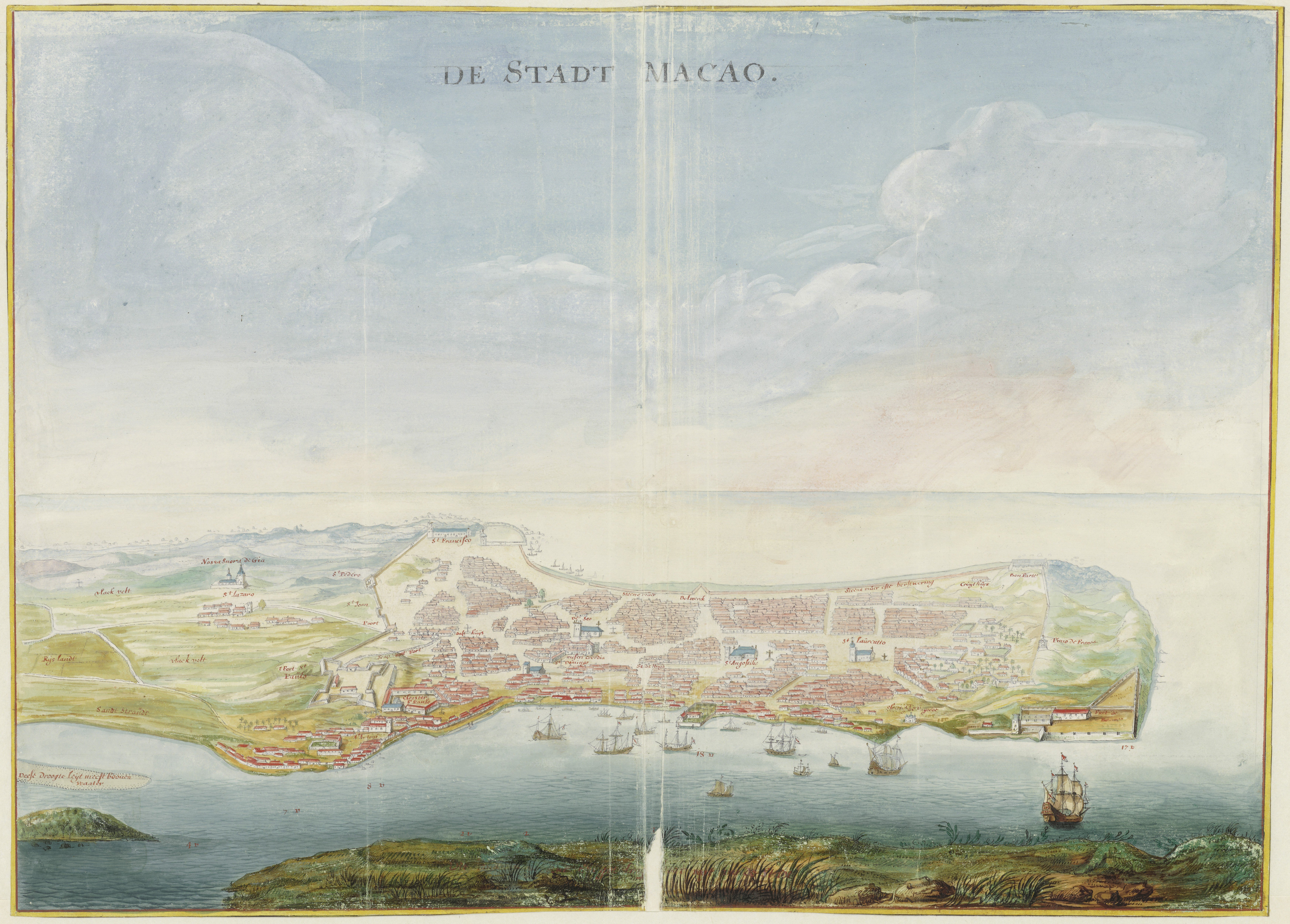 Title in the Leupe catalogue (NA): Gezicht in vogelvlucht op als voren van de zeezijde.. The chart is one of the maps contained in the Vingboons Atlas. The format excludes the strip of Japanese paper pasted on the chart. The image shows a peninsula with a walled city, churches, dwellings, a monastery and a fort. Outside the city one can discern a number of houses and a church St Lazaro. The watercolour image features labels such as St Fransisco; Steene muur ofte borstwering; Cruijt huijs; Stadt Huijs; Clooster St Paulo; 't Fort St Paulo among others. Several roads lead to the city, bisecting various tracts of land such as: rijs landt; vlack velt, Sandt Strandt. A fort is situated at the tip of the peninsula fort de [?]. Large and small vessels lie at anchor before the peninsula.